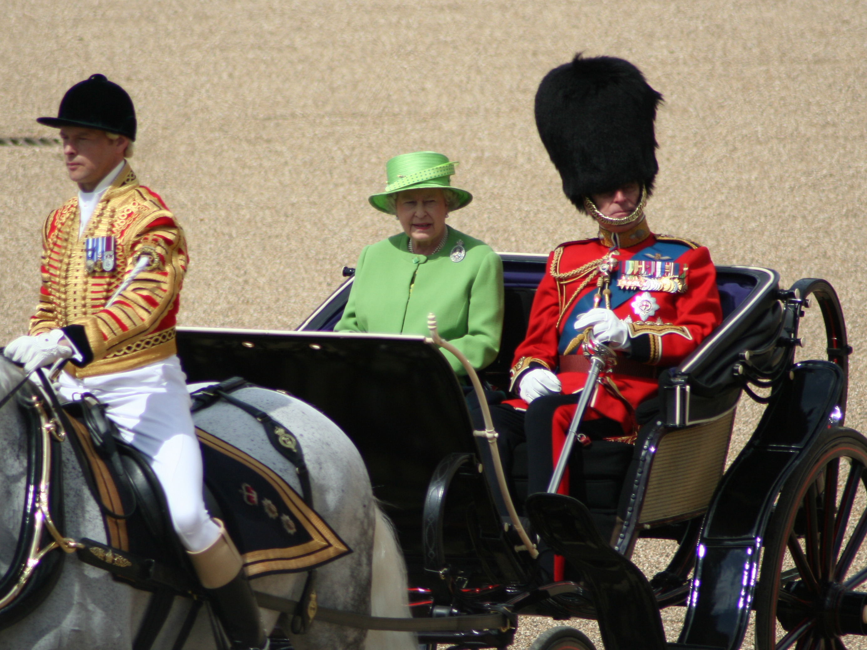 Queen's Official Birthday parade 2007